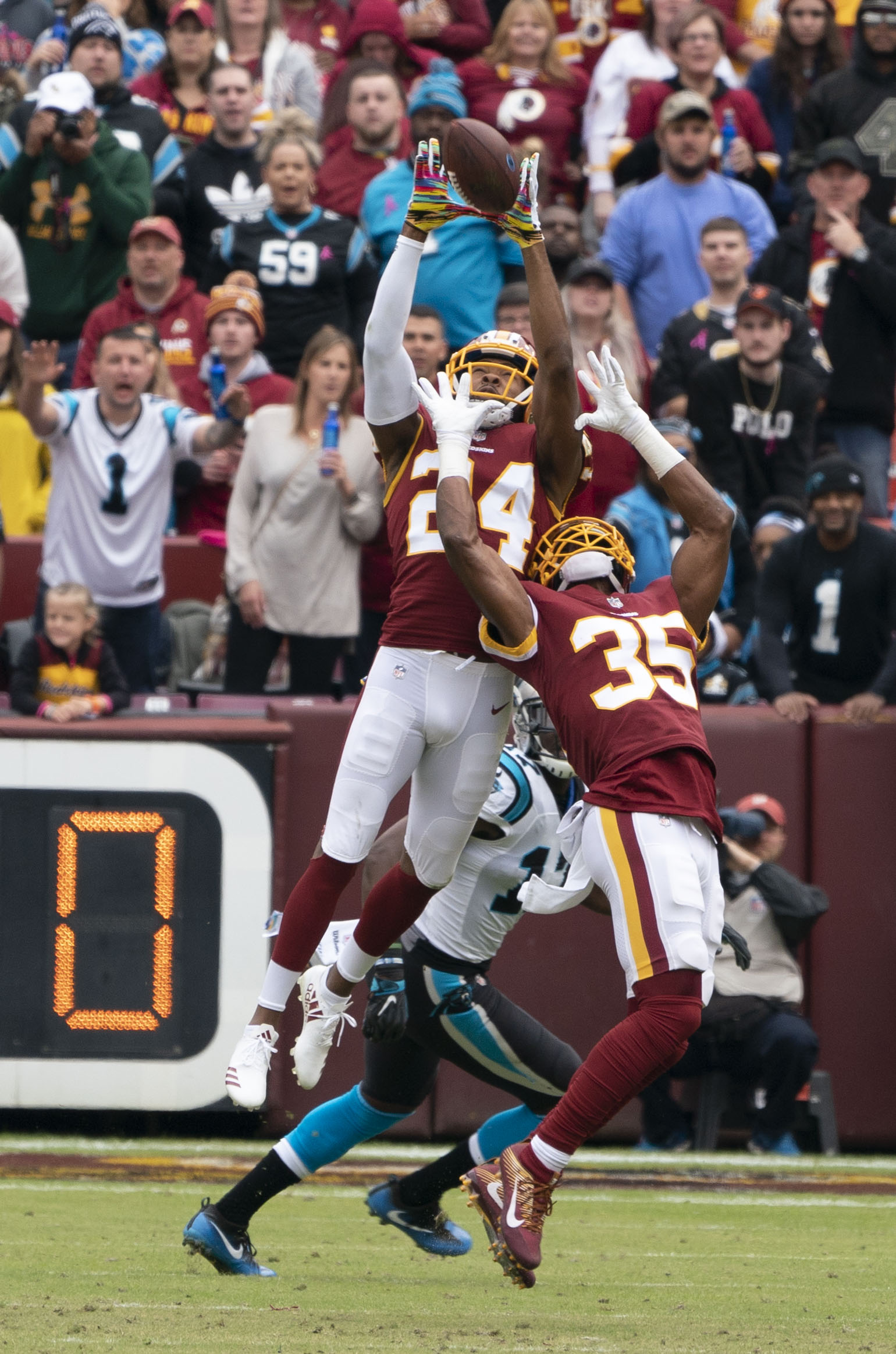 Washington Redskins cornerback, Josh Norman, making an interception against the Carolina Panthers on October 14, 2018.